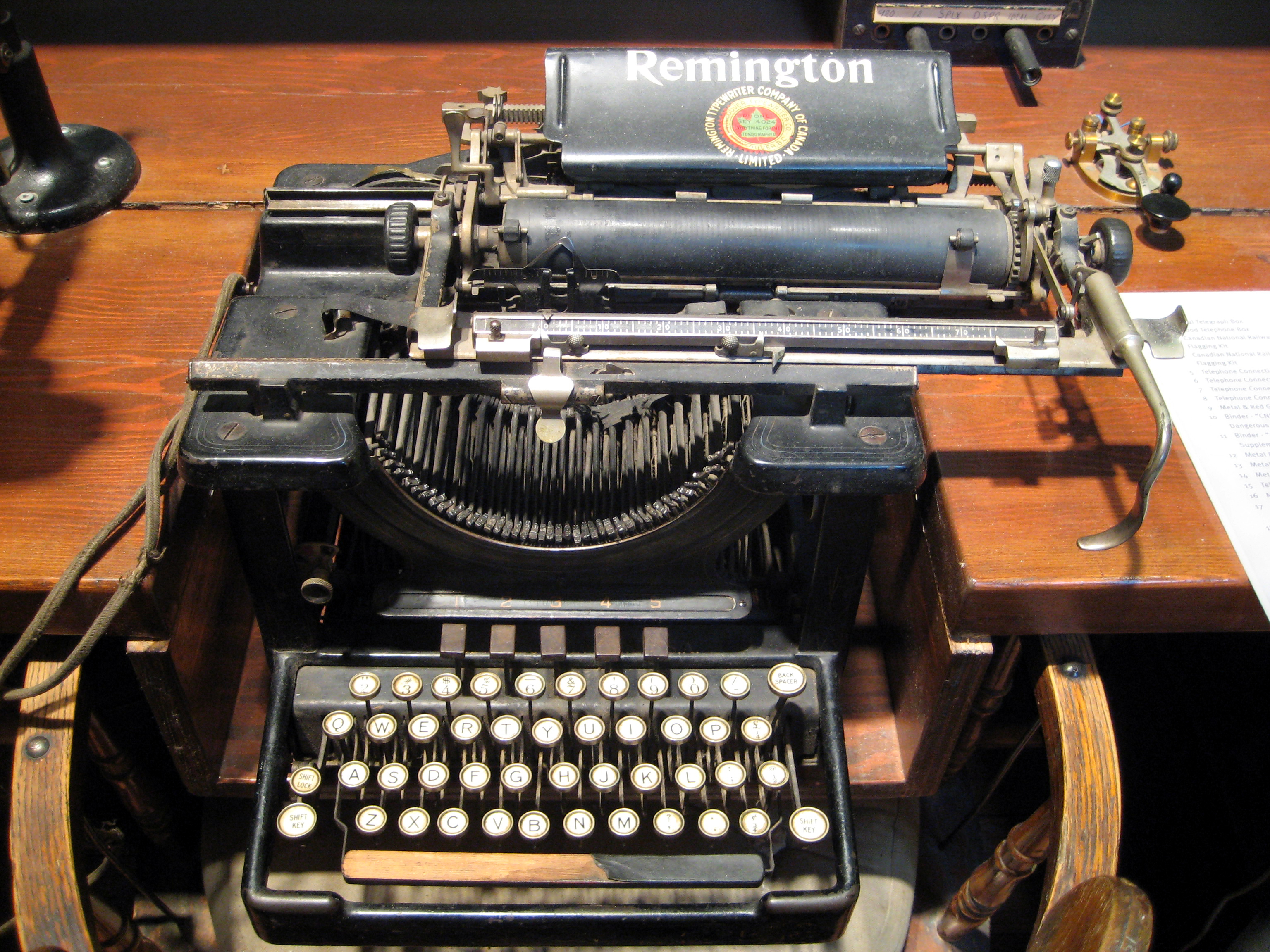 Remington Typewriter